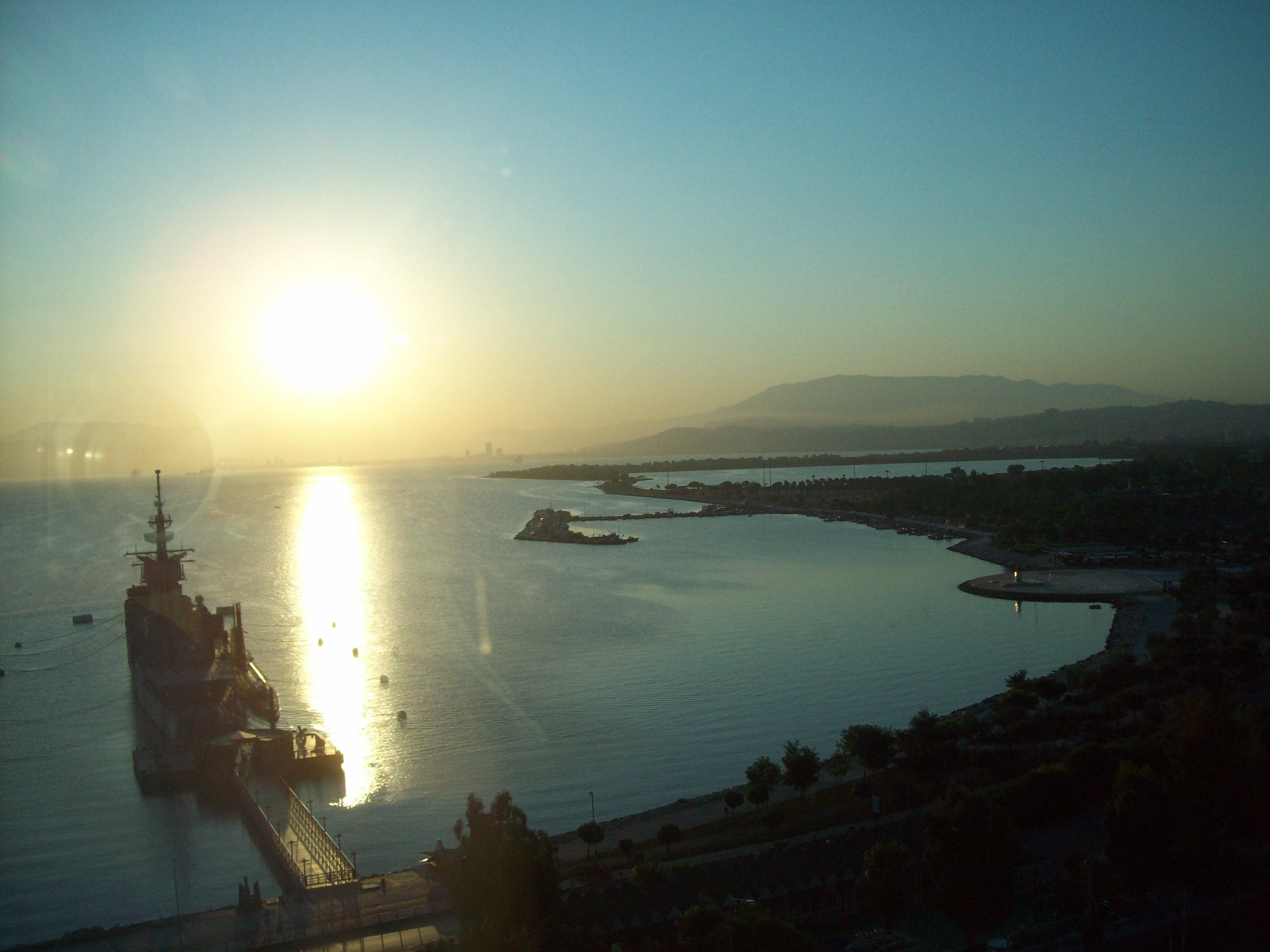 Izmir, View from Inciralti